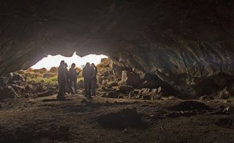 Wilson Butte Cave in Jerome County, Idaho. This is a National Historic Landmark under the jurisdiction of the United States Bureau of Land Management.